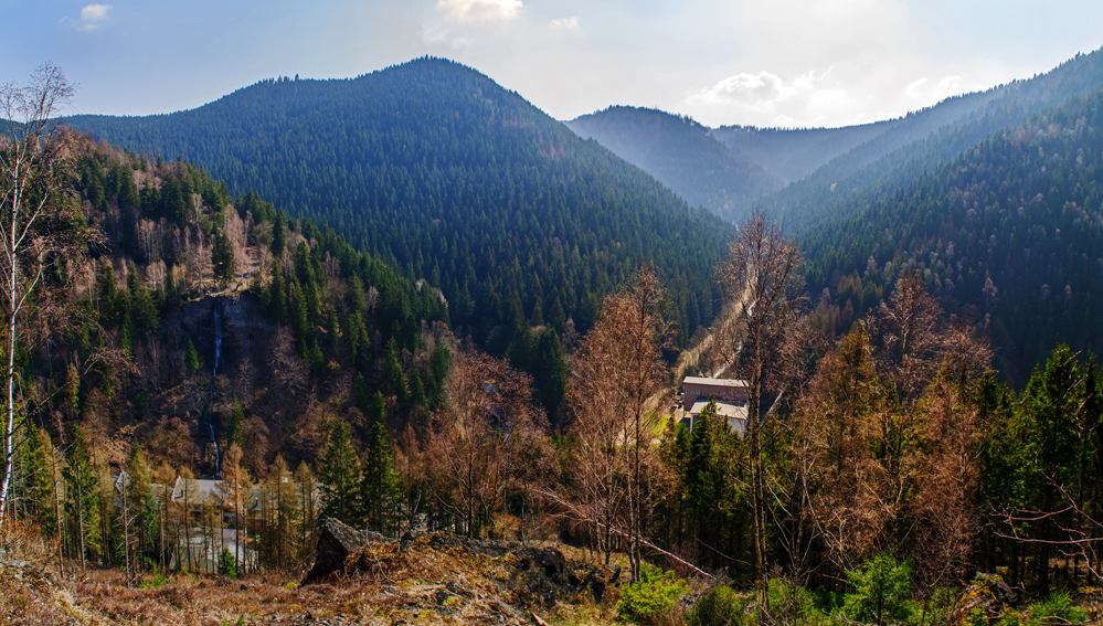 View from above into the Okertal (Harz landscape conservation area (Goslar district), LSG GS 00059)